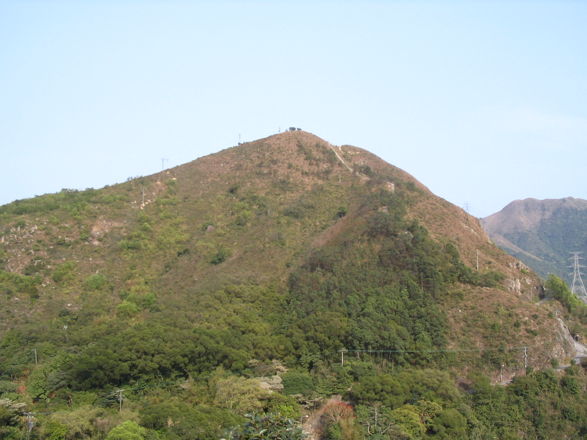 Photo of Temple Hill